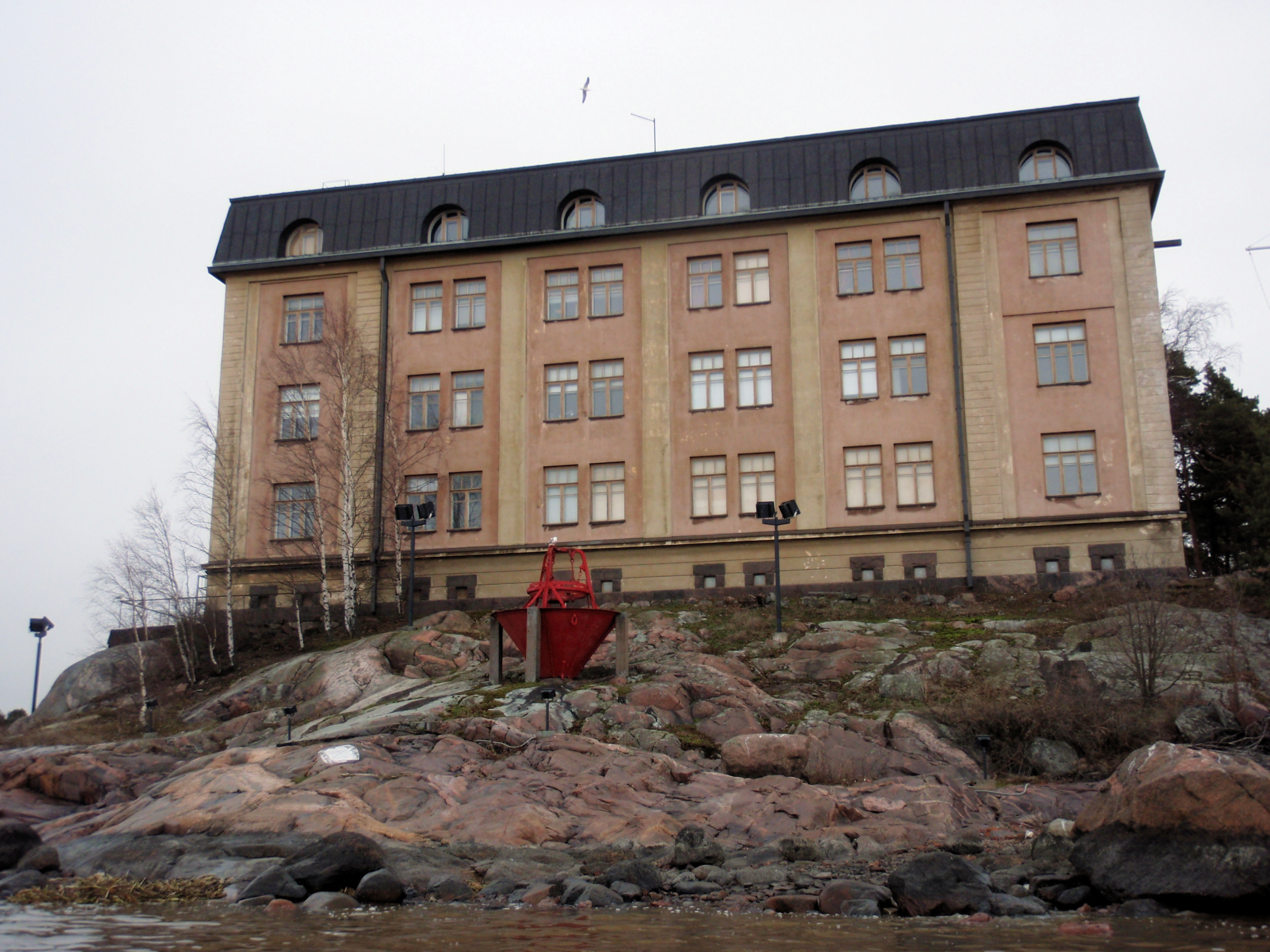 Former maritime museum on Hylkysaari island in Helsinki, Finland